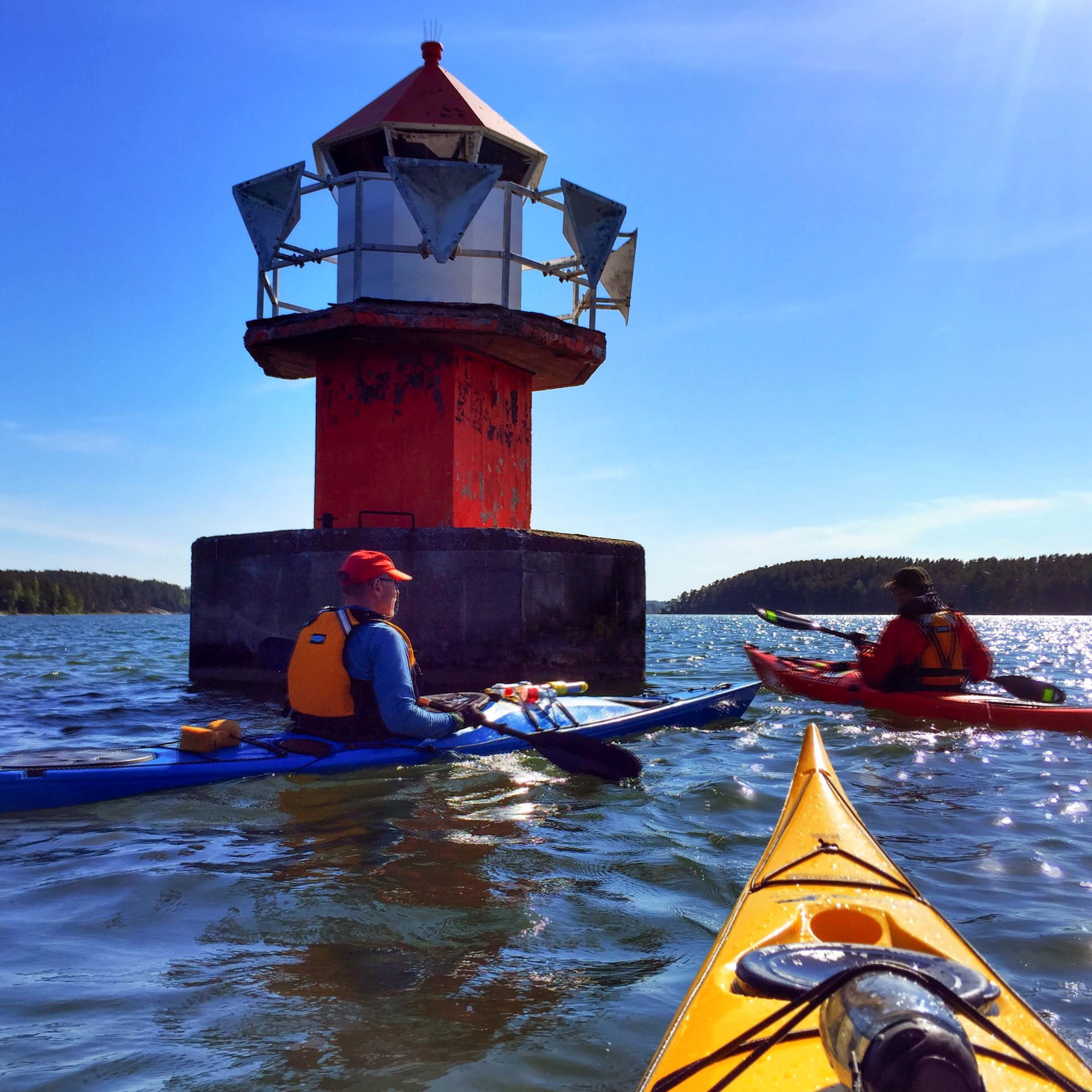 Kärrholm lighthouse